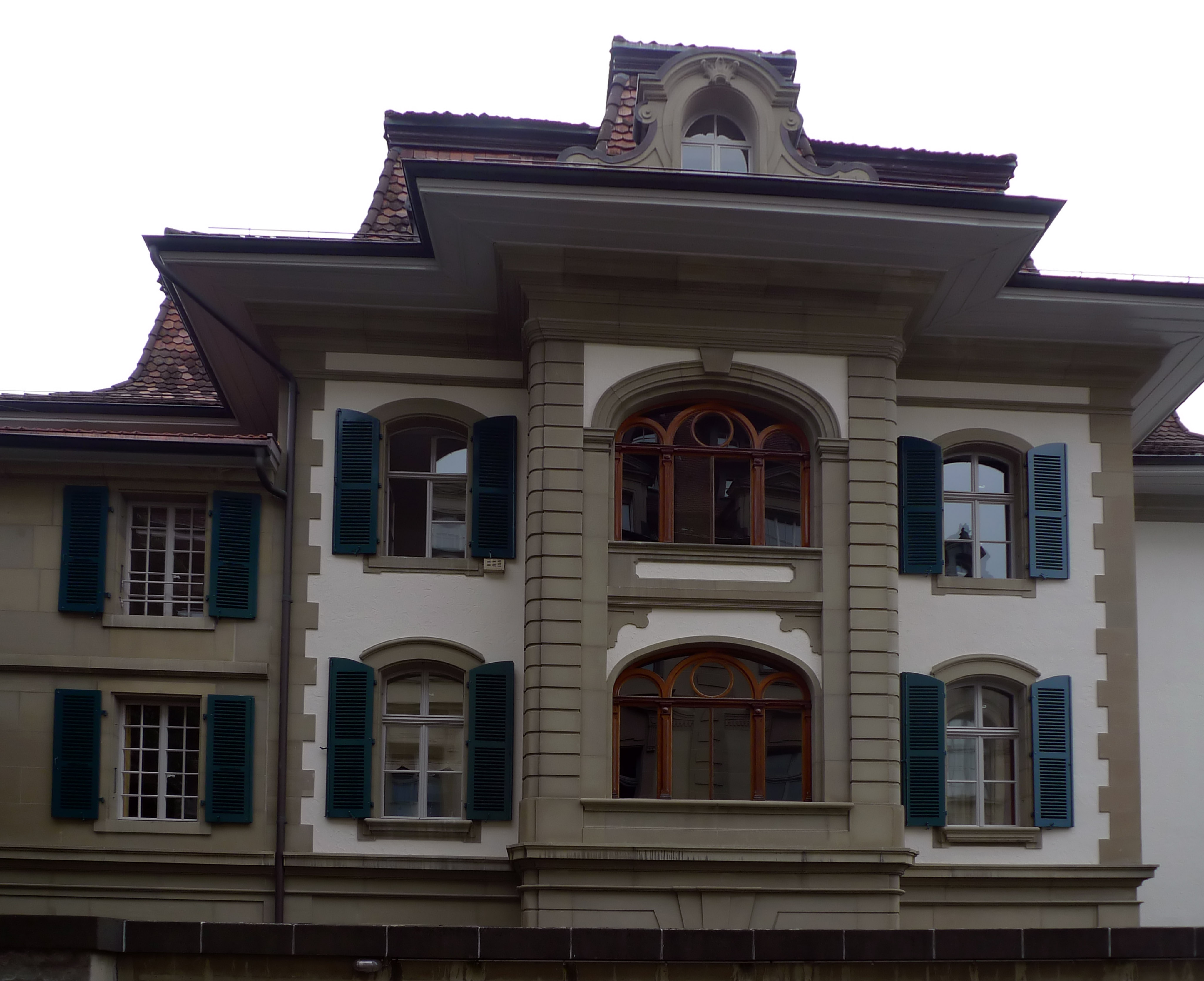 House at Herrengasse 23, Bern, west facade. Built 1690 by Abraham I. Dünz for David Salomon von Wattenwyl, rebuilt around 1756 by Erasmus Ritter in late Louis XV style.